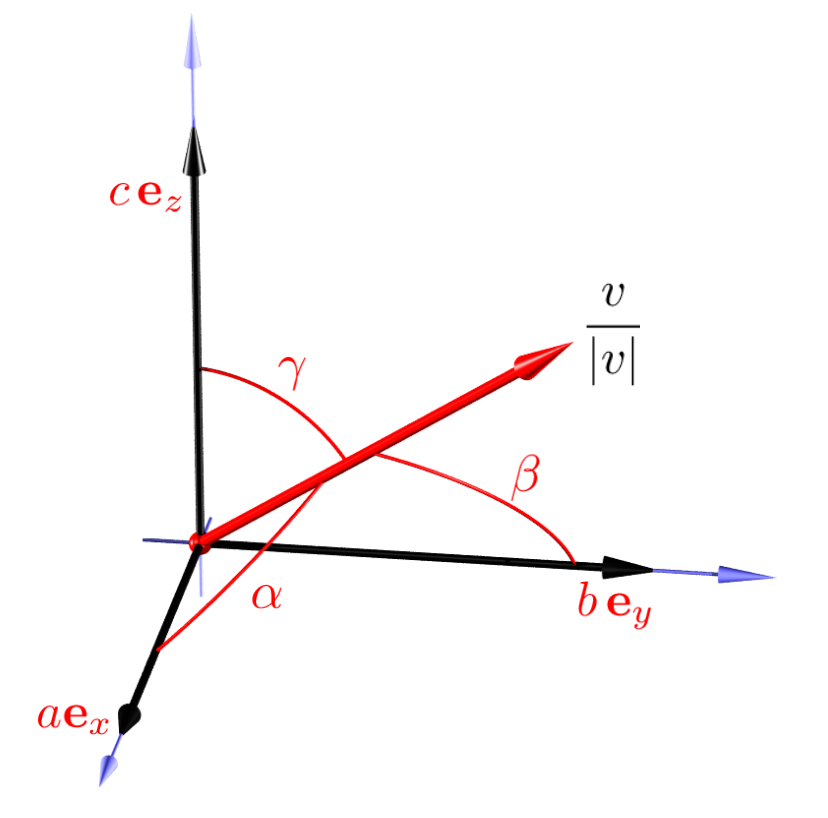 Direction cosines